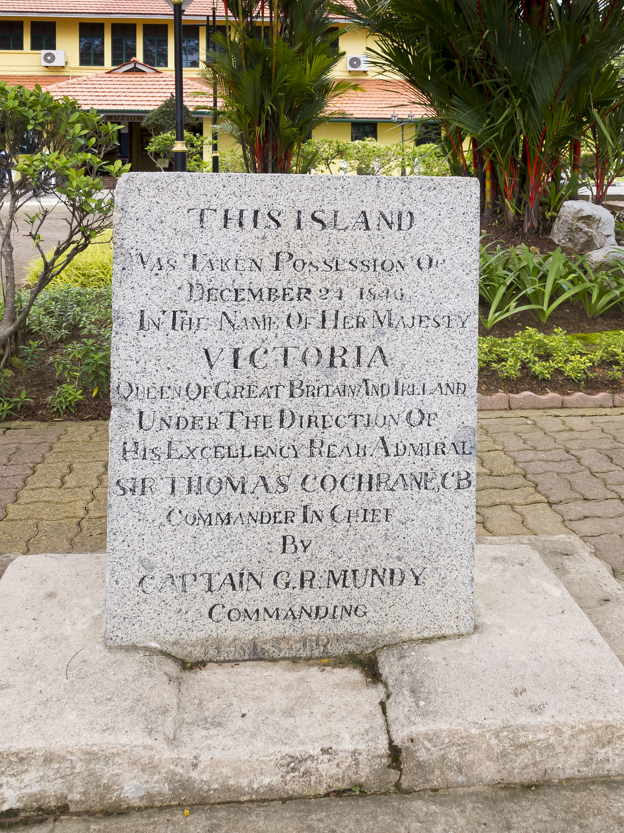 Labuan Malaysia: Memorial Stone about the Cession of Labuan, December 24 1846. Today displayed at the History Square in Labuan (in front of the Labuan Muzeum)